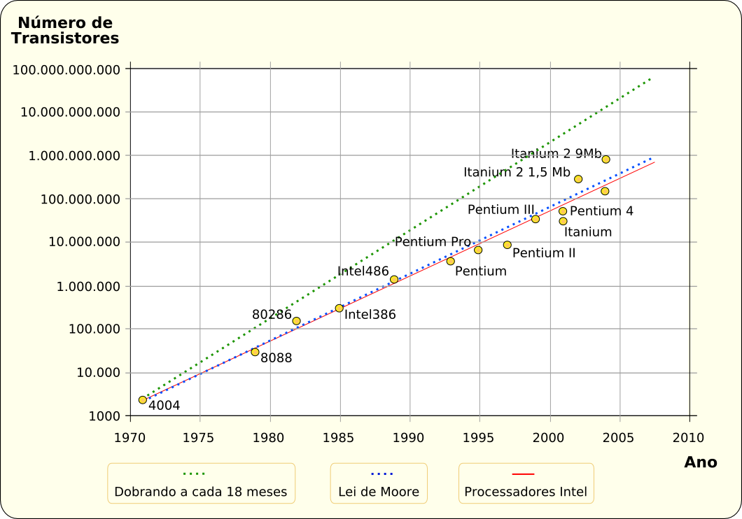 Graphic of Moore's Law, the graphic show the evolution of the number of transitors nos microchips Intel over the time.